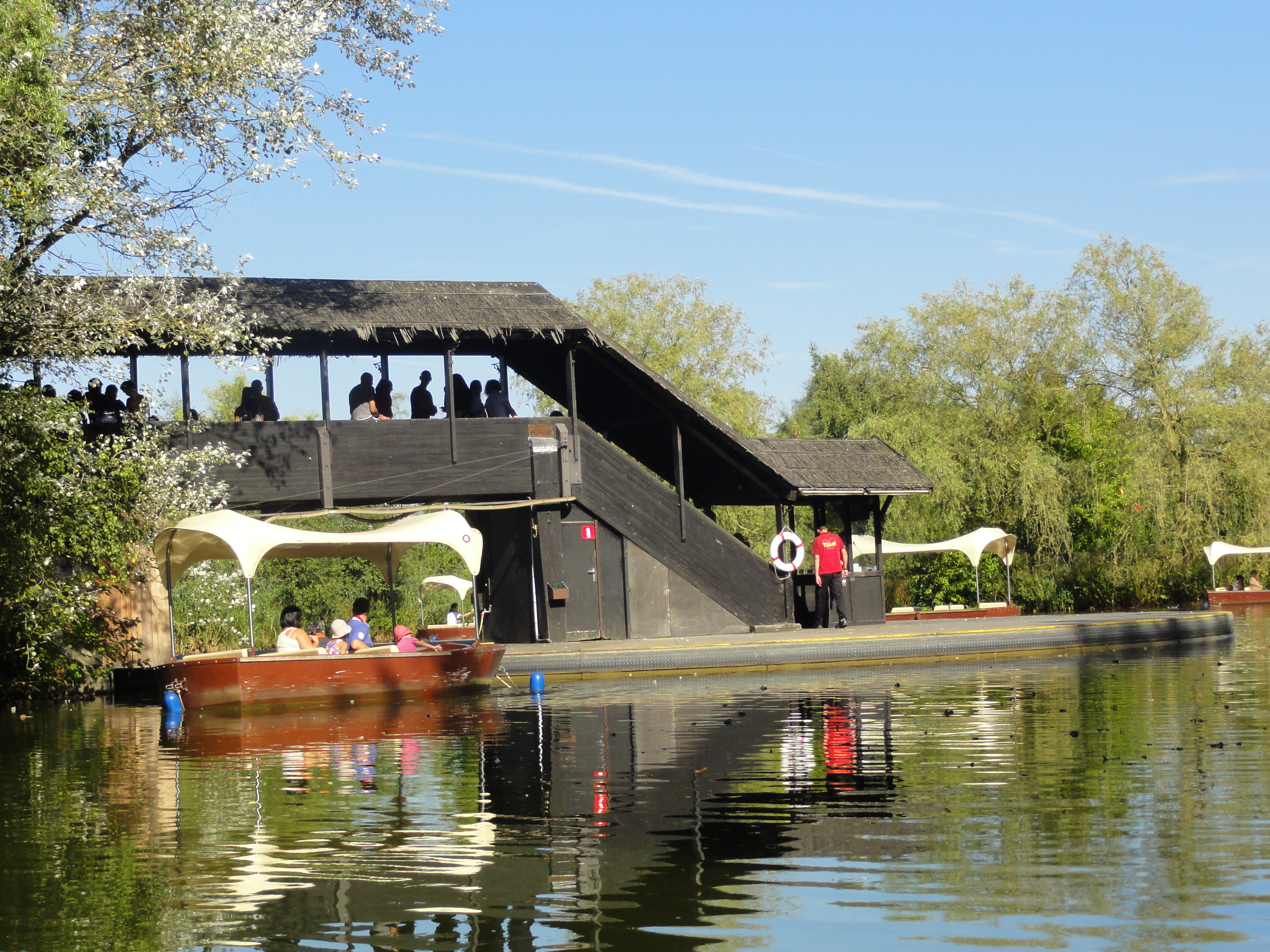 Gold River Adventure, Walibi Belgium, Belgium.